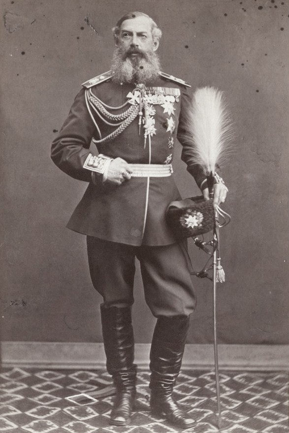 Prince Alexandr Mikhailovich Dondukov-Korsakov